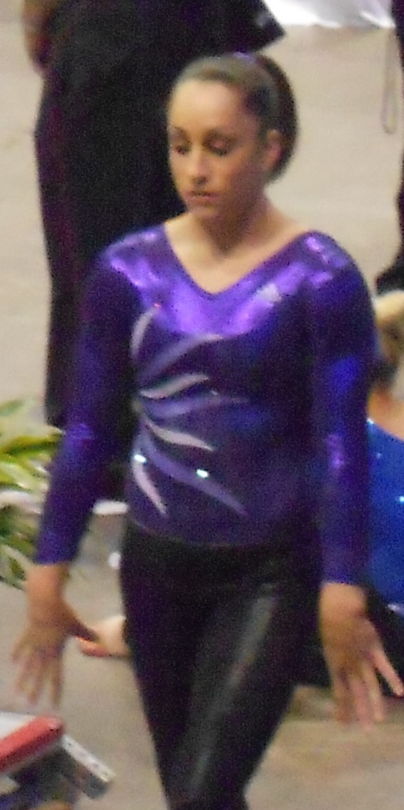 2012 Secret US Classic